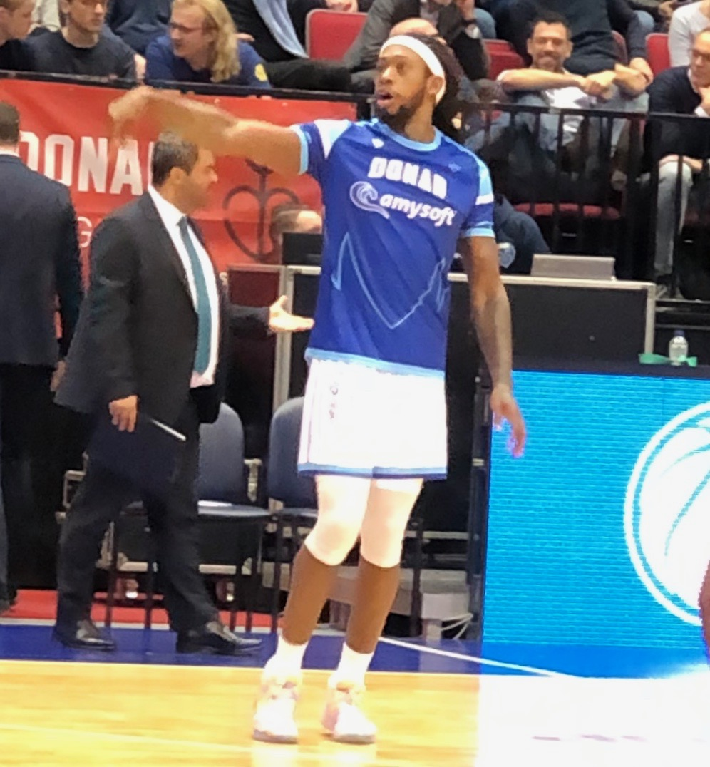 Deshawn Freeman of Donar Groningen.